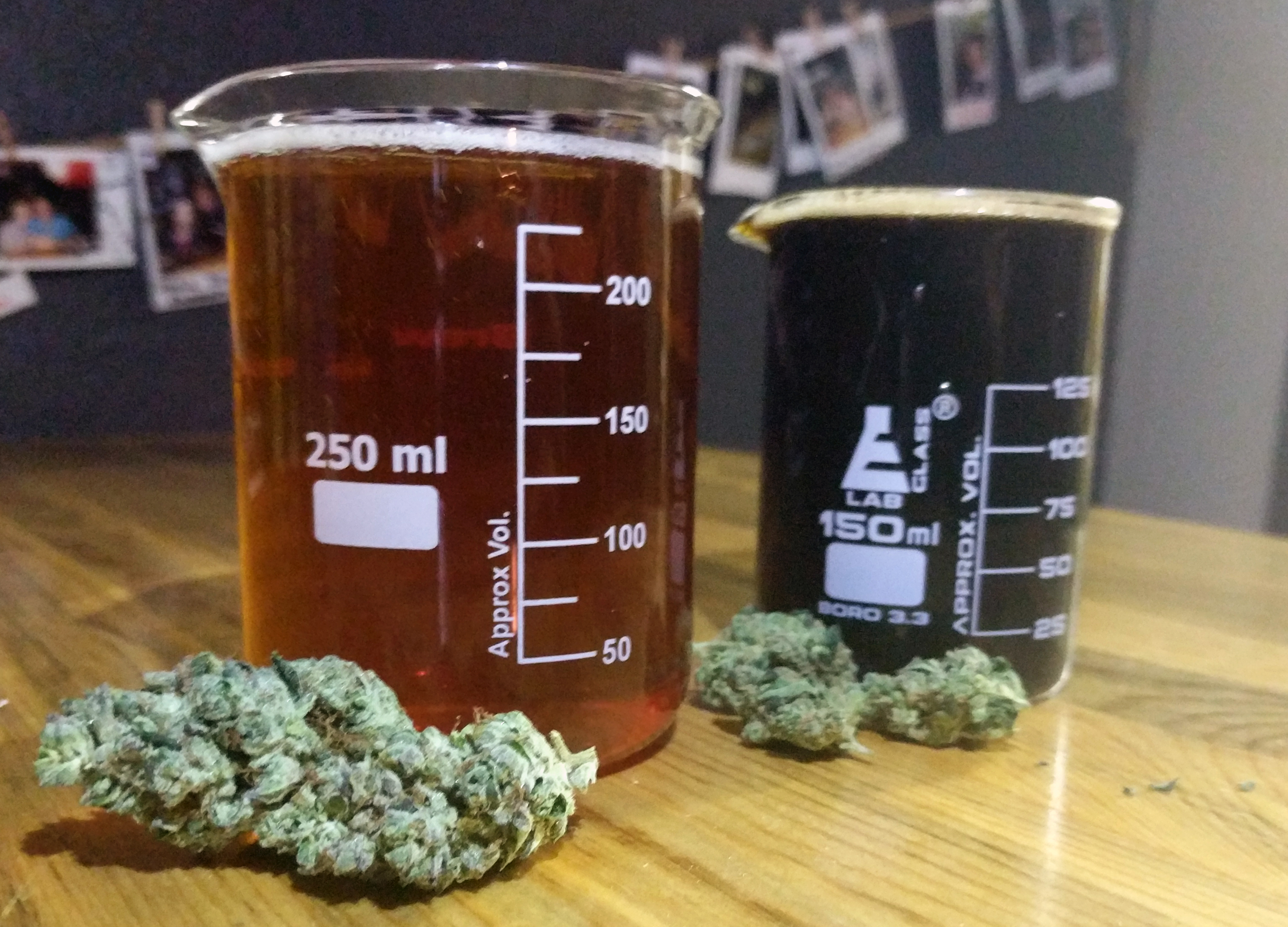 A tour in Denver, Colorado combines a marijuana grow and dispensary visit with a local craft brewery visit